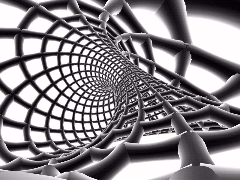 Stereographic projection of a uniform polychoron, created by me, Anton Sherwood, using Fritz Obermeyer's Jenn